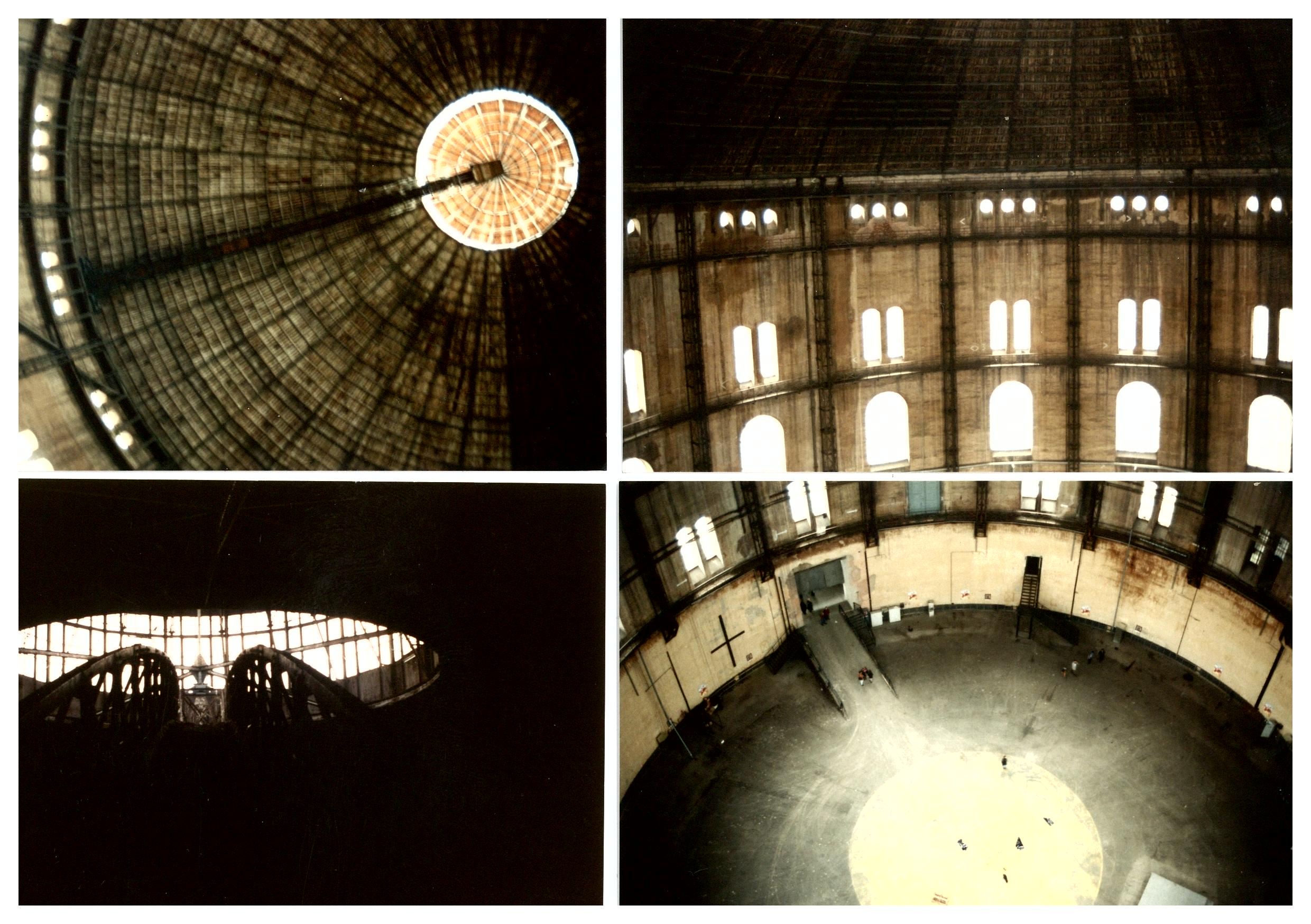 Gasometer Vienna befor appartement construction works starts ~1998 left top:roof, right top: upper sidewall, left bottom:bridge into top, right bottom: floor and lower sidewall (see the people on the flootr!9